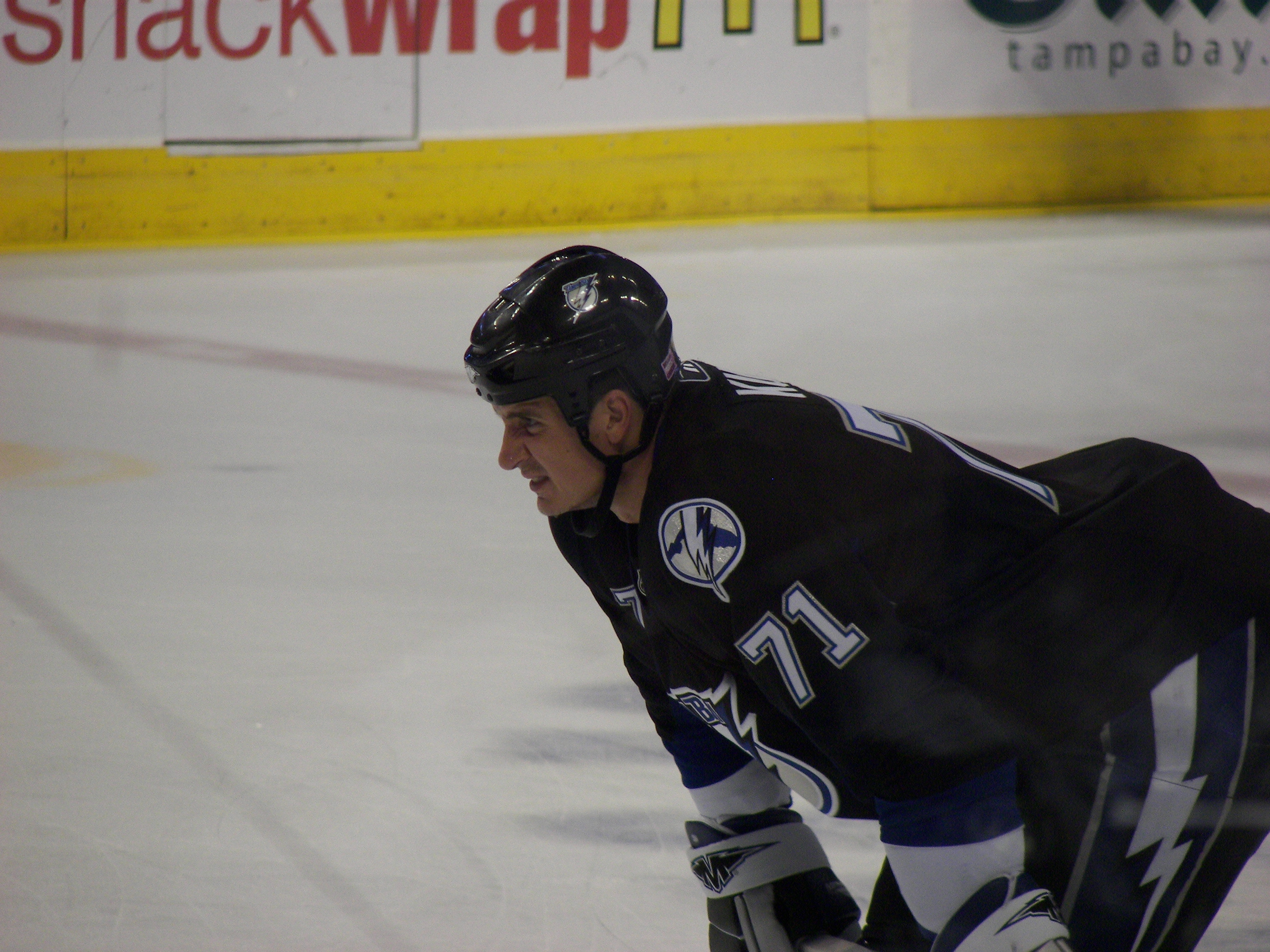 Filip Kuba of the Tampa Bay Lightning during a Lightning vs. Atlanta Thrashers ice hockey game at the St. Pete Times Forum in Tampa, Florida on October 20, 2007.